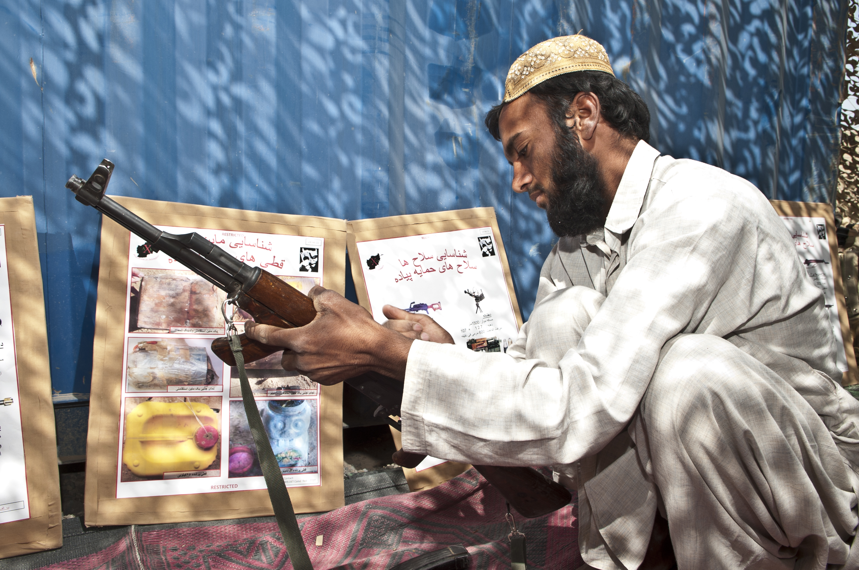 An Afghan local familiarizes himself with an AK-47 during weapons training at Patrol Base Bolan-T, Lashkar Gah District, Helmand province, July 21. The Royal military police provide a ten-day course that helps Afghan locals with little to no knowledge of policing become trained Afghan local police officers.